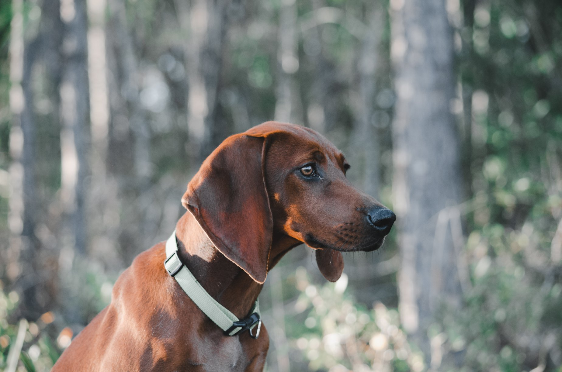 A 4-month-old female Redbone Coonhound